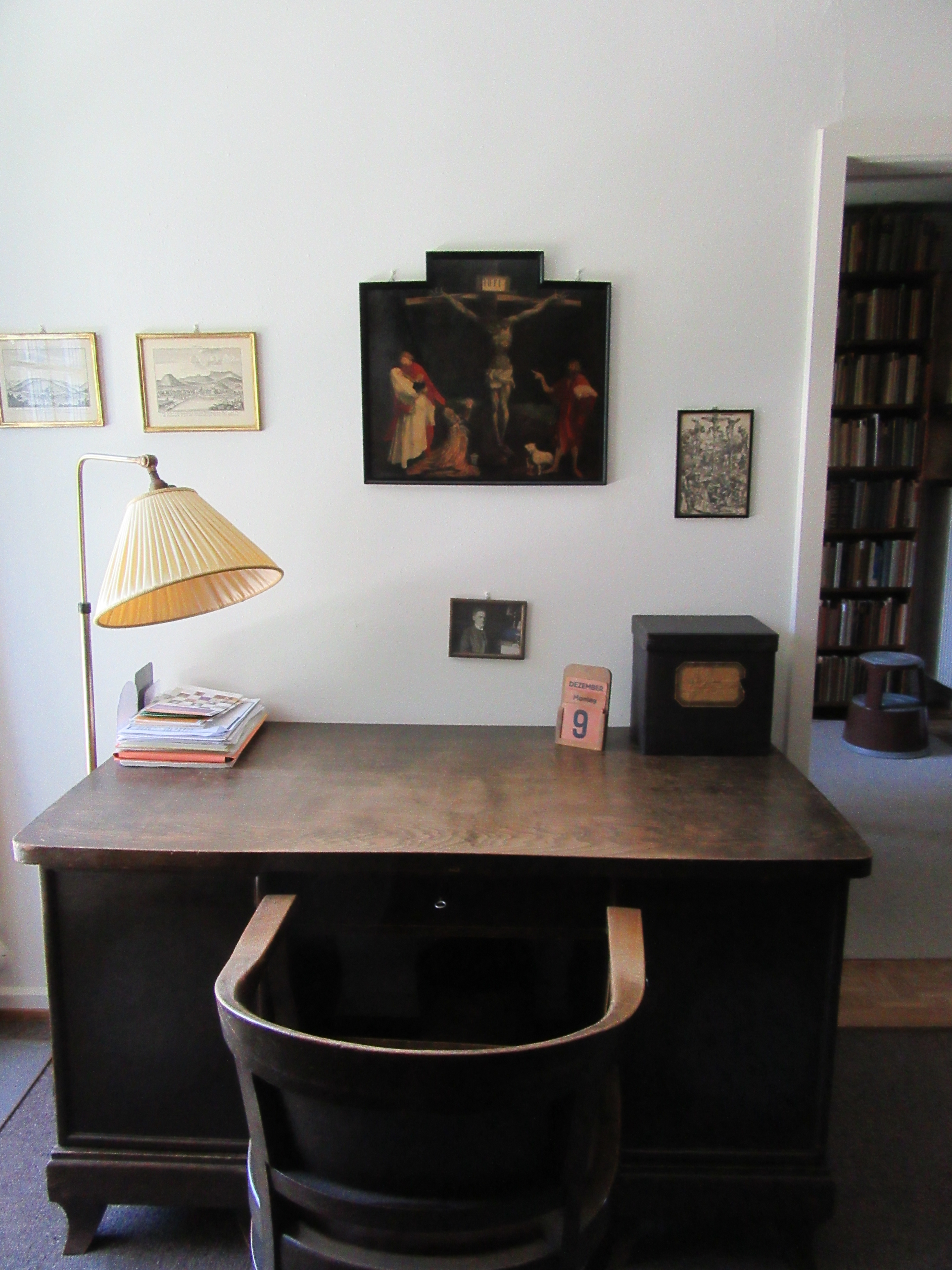 Karl-Barth-Archiv, Bruderholzallee 26 in Basel